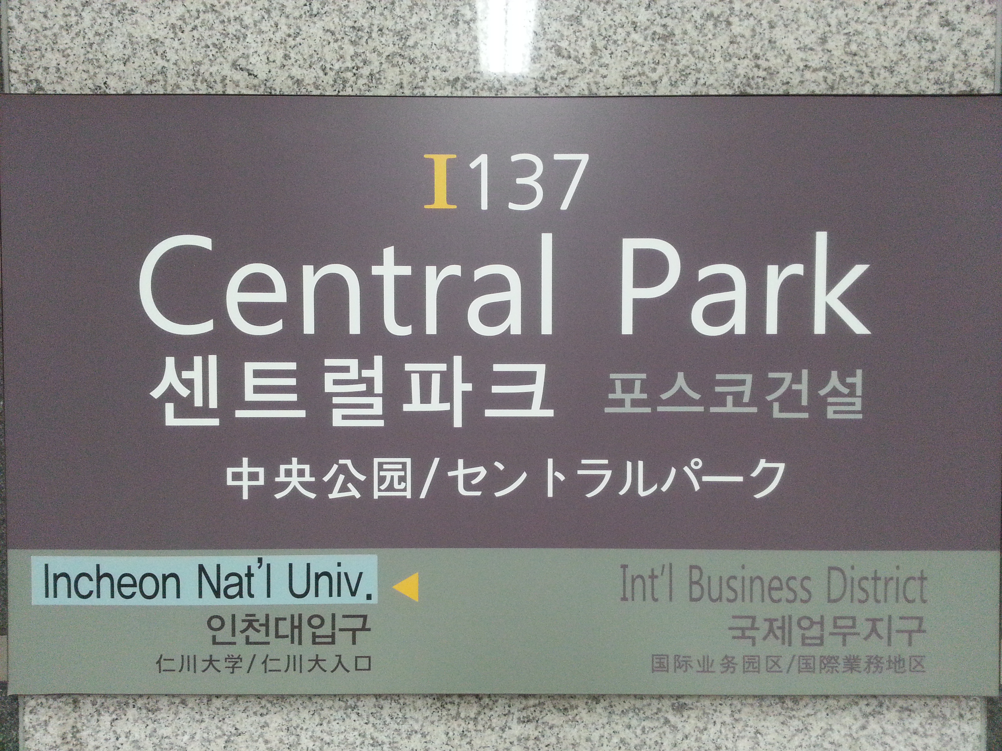 Incheon Subway Line 1 Central Park Station